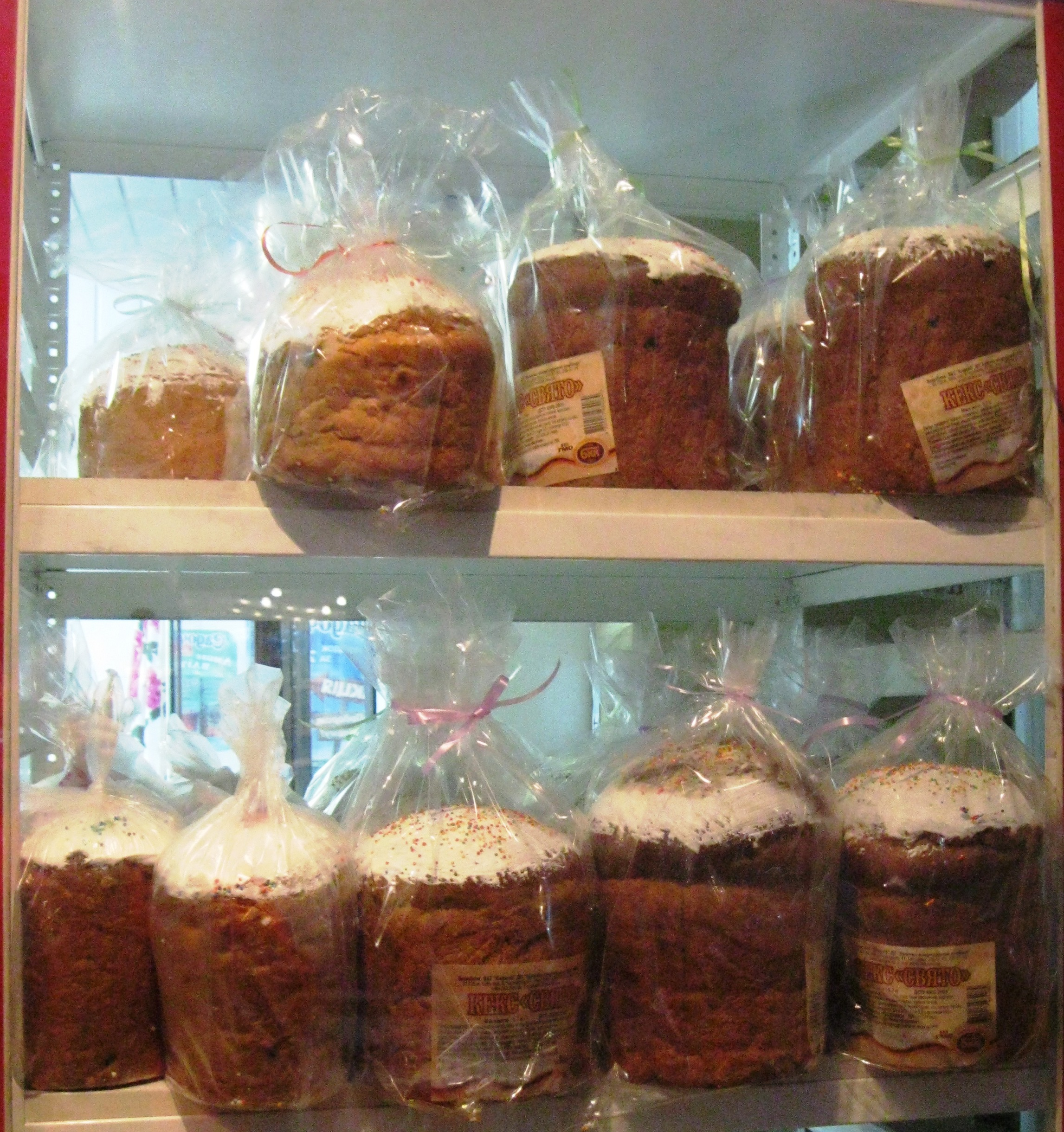 Paska (Kulich) on Feofanovskiy market in Kiev